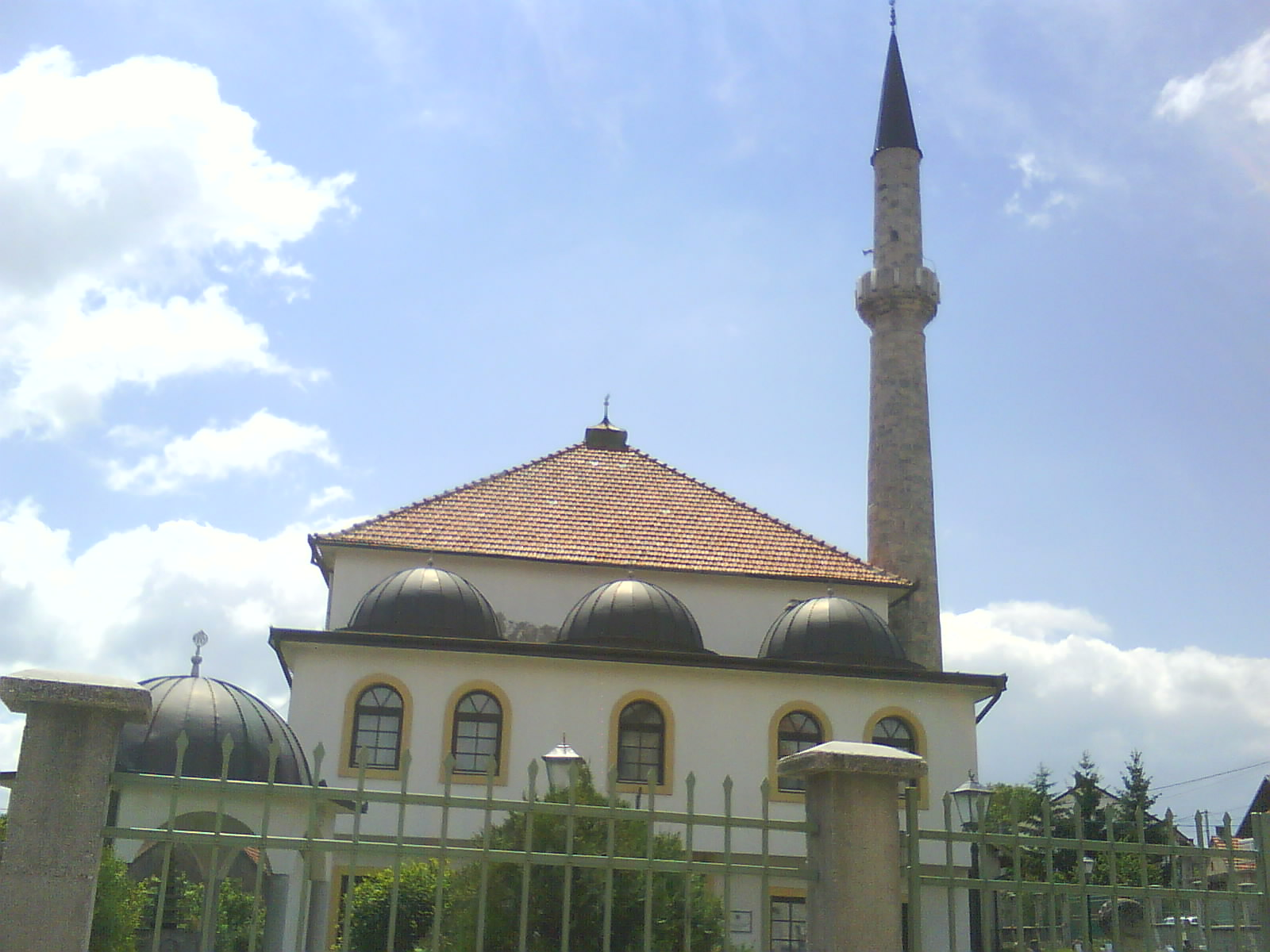 Džudža Džafer-bey Kopčić mosque in Tomislavgrad